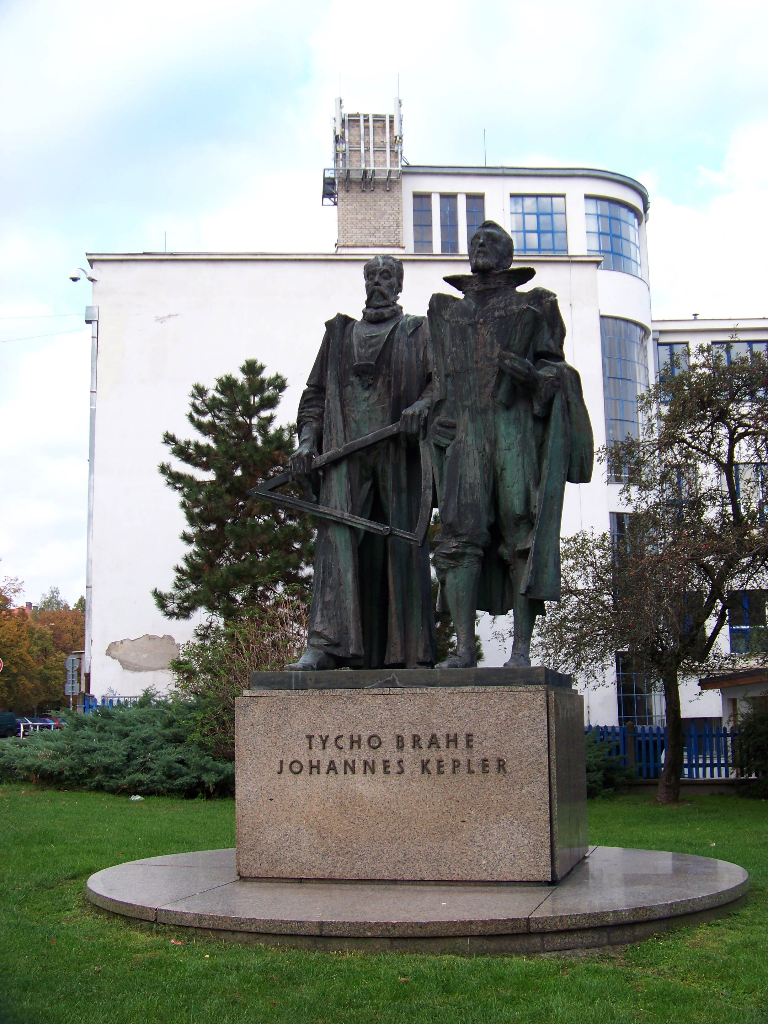 Prague-Hradčany, the Czech Republic. Keplerova, a statue of Tycho Brahe and Jan Kepler. - OpenStreetMap(Info)